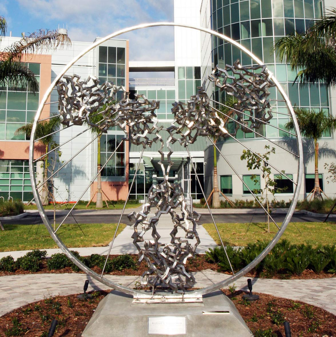 Julian Voss-Andreae Angel of the West, 2008 Height 12' (3.70 m) Stainless steel Location: The Scripps Research Institute Florida